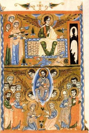 Armenian Medieval miniature. Myrrhbearers.